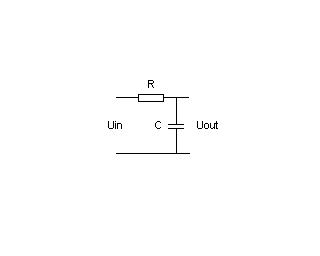 first order low pass filter